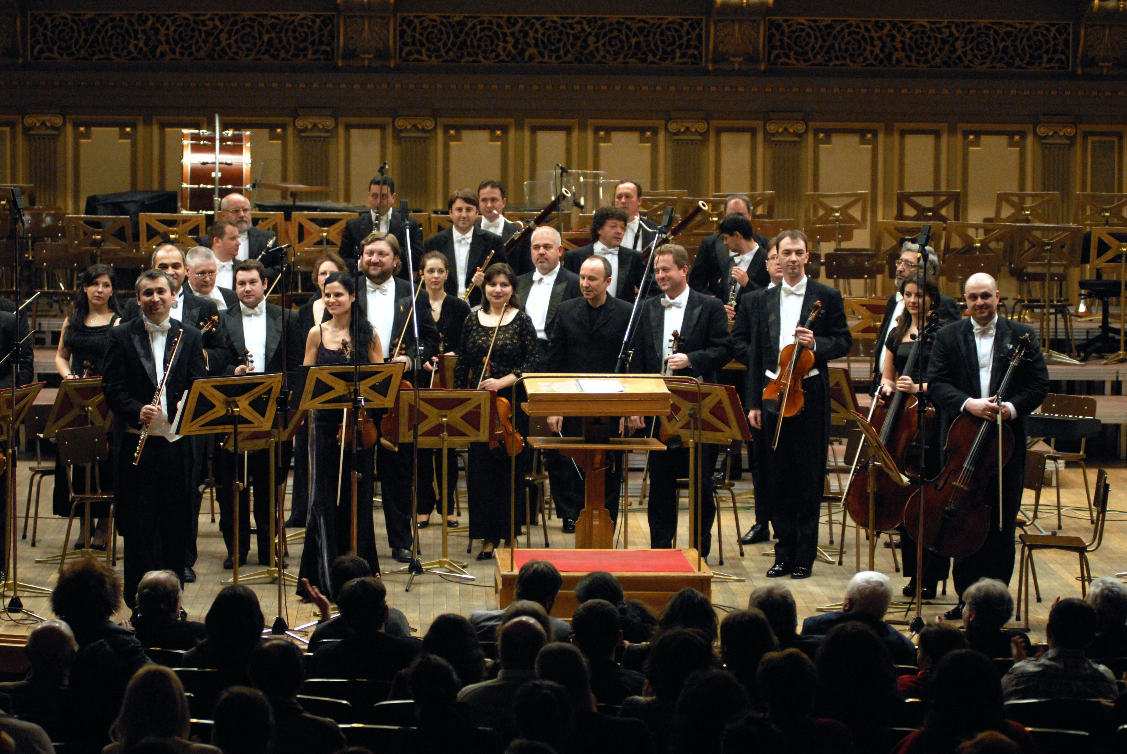 Bucharest Symphony Orchestra conducted by Benoît Fromanger, soloists Corina Belcea - violin and Catalin Opritoiu - flute. Live at the Romanian Athenaeum.